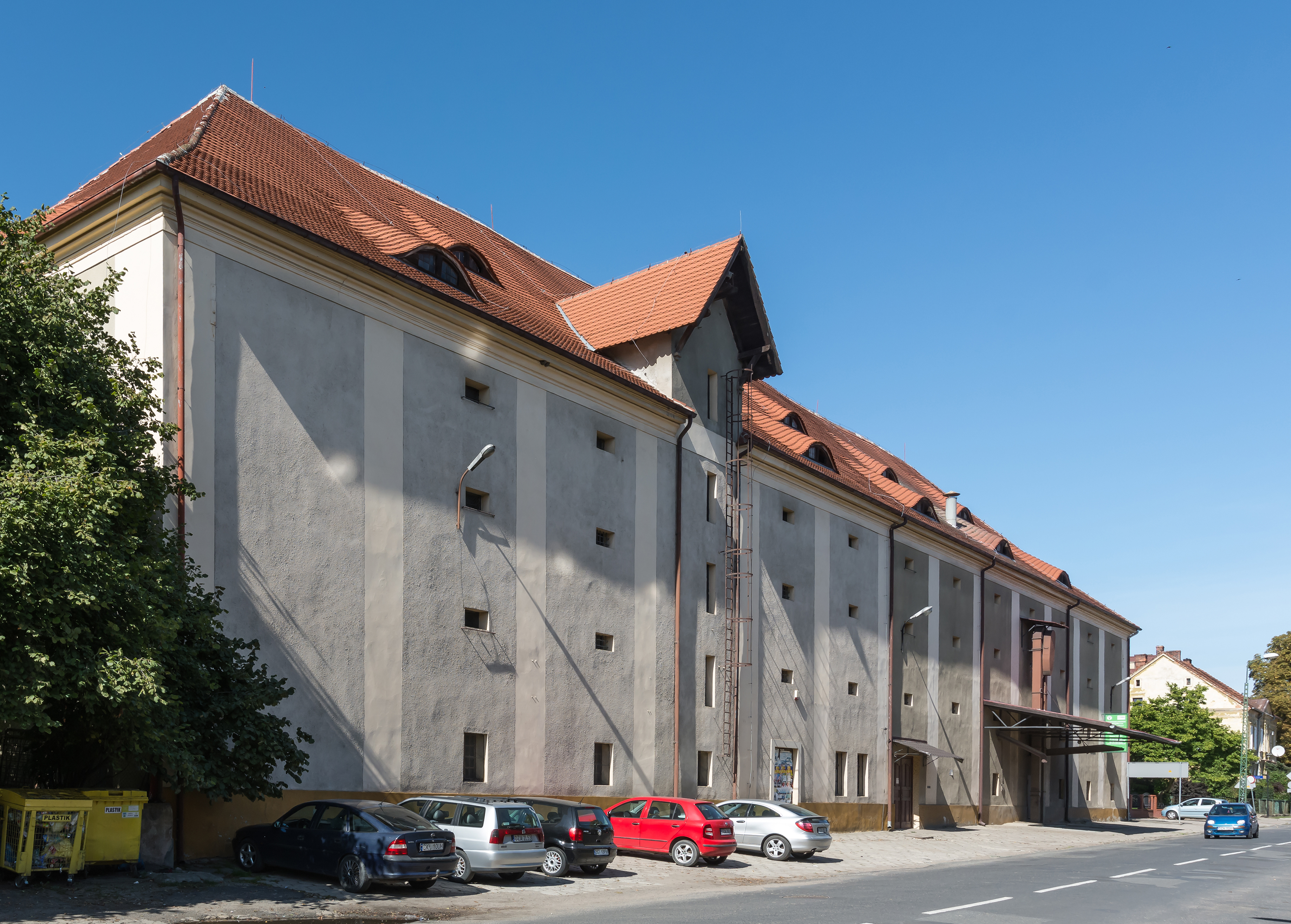 Granary in Henryków